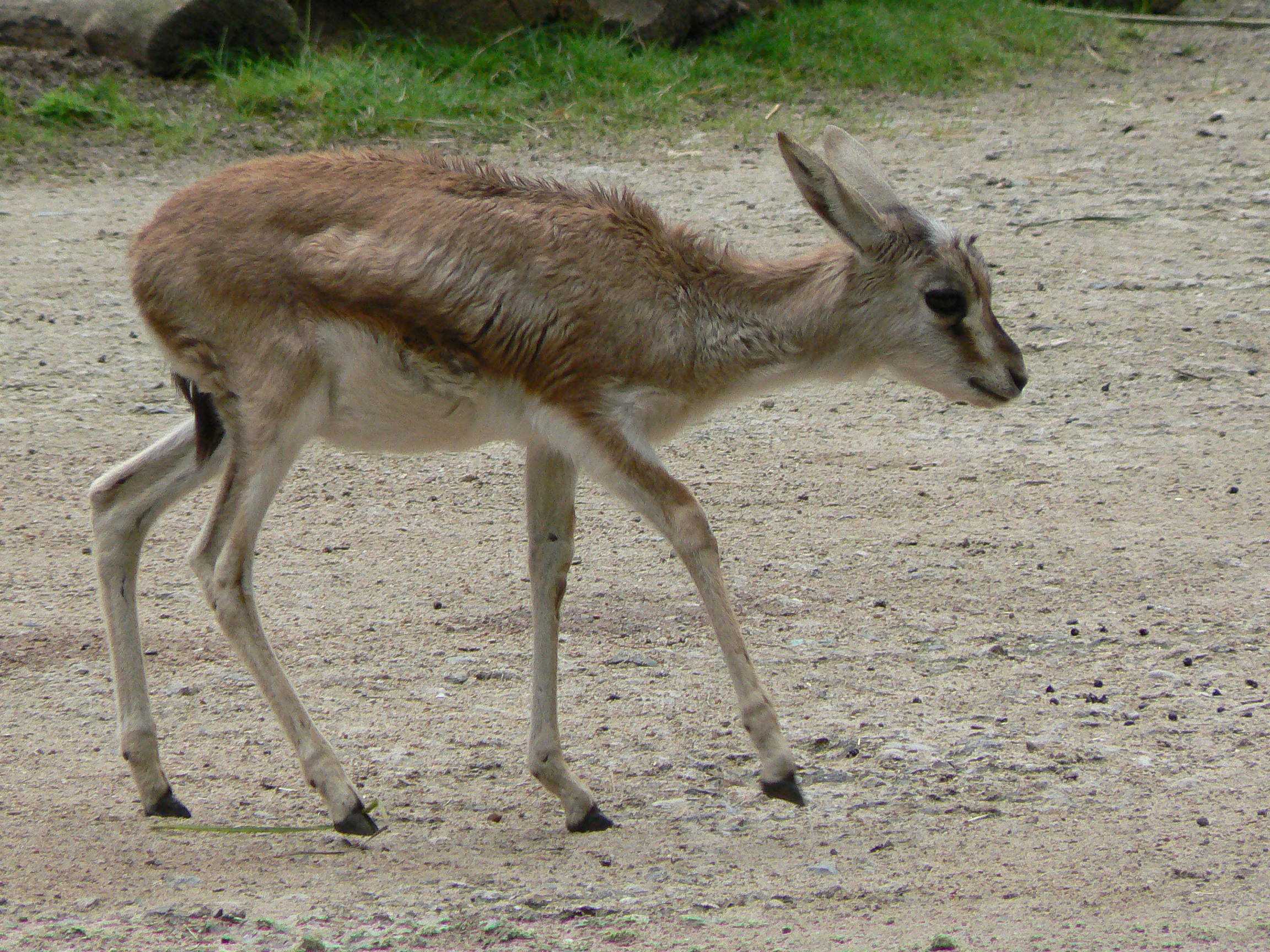 Persian gazelle at the zoo in hamburg, germany